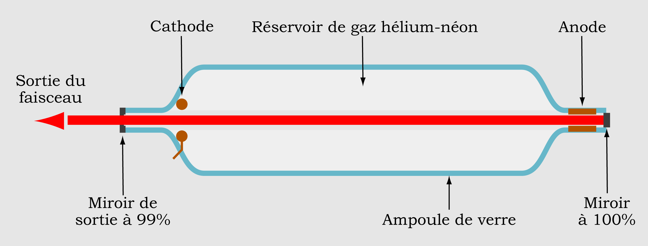 Diagram of a Helium-Neon laser after Hene-1.png by DrBob - (licensed GFDL-en)